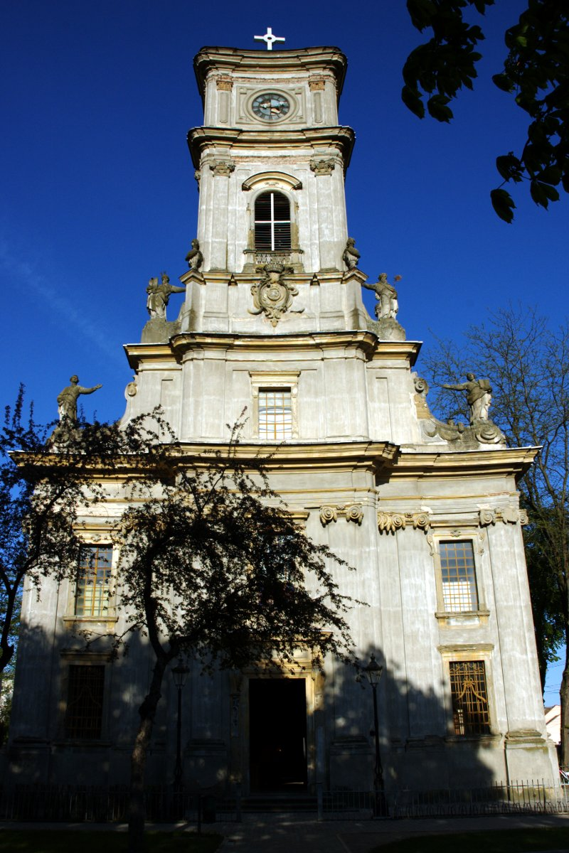 Kalazanczy Szent József church in Carei 01